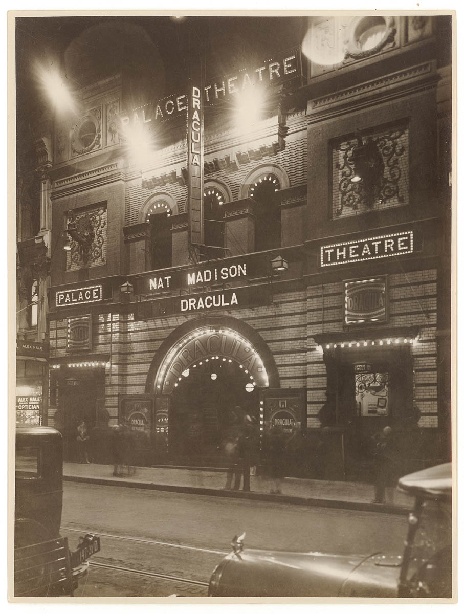 Note the Chrysler bonnet/hood ornament in the foregroundl; the model for the huge stainless steel versions on the Chrysler Building, New York Format: Photograph Find more detailed information about this photographic collection: .au/item/itemDetailPaged.aspx?itemID=153778 From the collection of the State Library of New South Wales